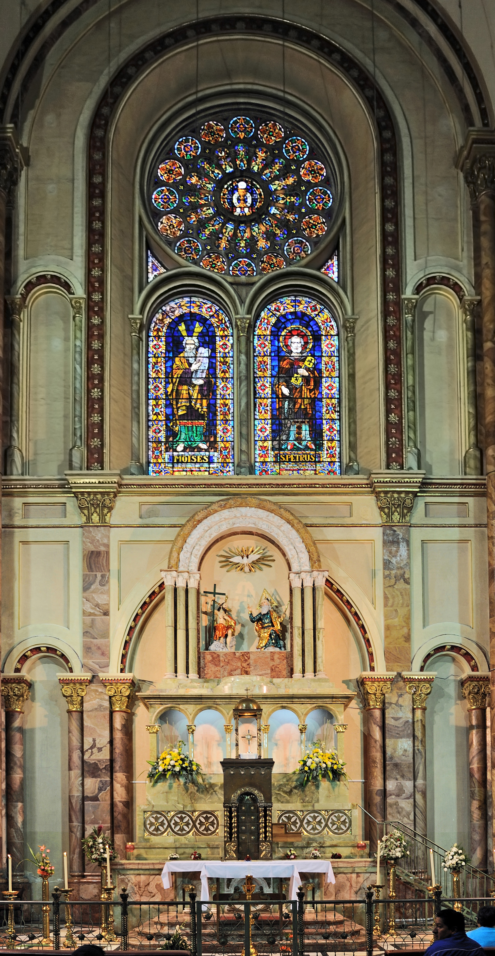 Cuenca, Ecuador: lateral choir of Catedral de la Inmaculada Concepcion (Immaculate Conception), commonly designated as Catedral Nueva (New Cathedral) by the inhabitants of the city.